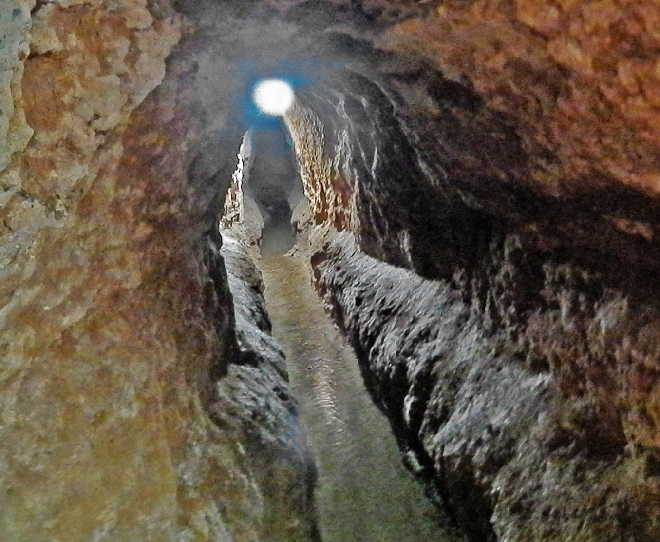 L’intérieur d’un qanat en fonctionnement en Iran.